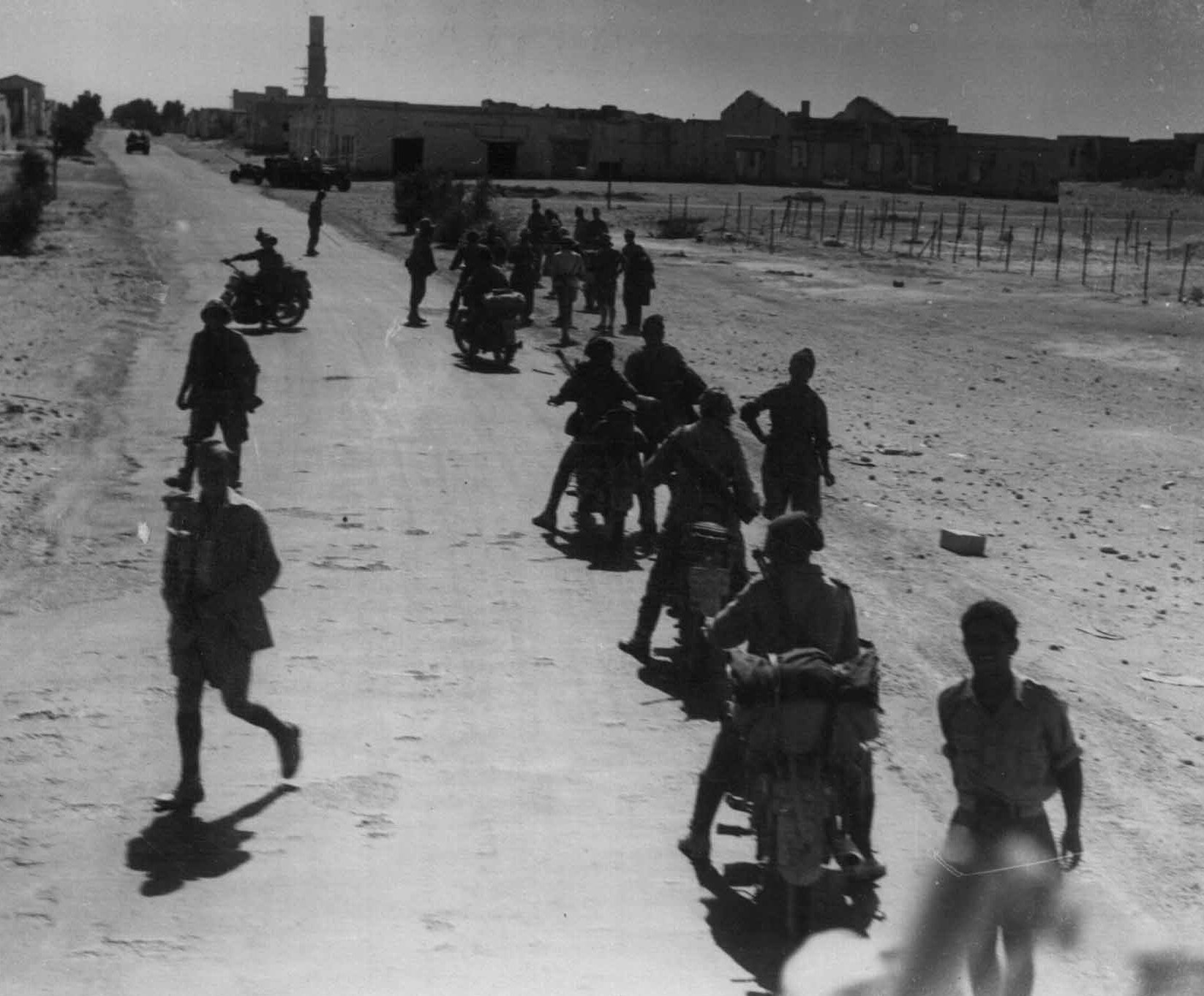 Bersaglieri entering Mersa Matruh on the 29 June, 1942